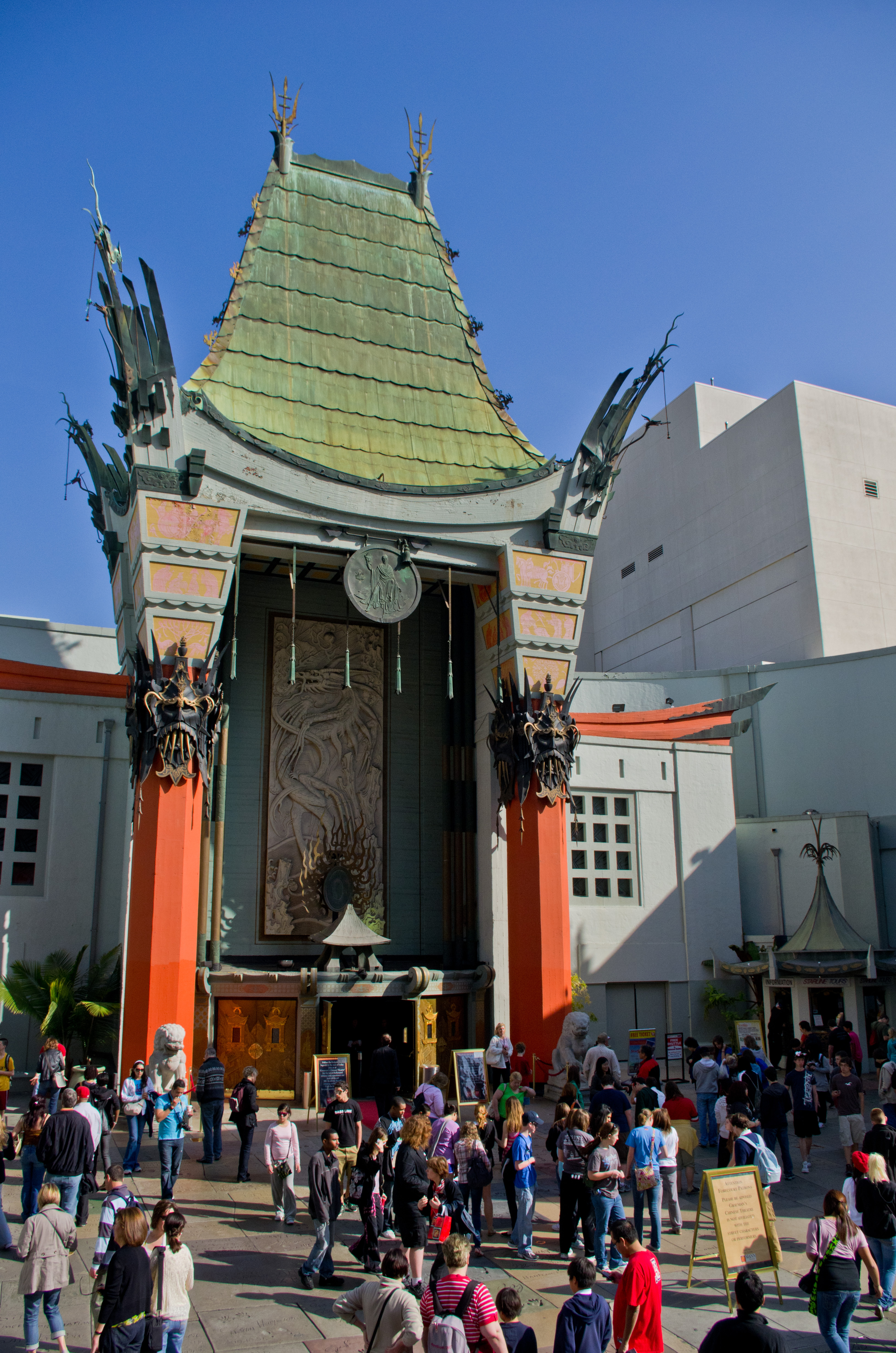 Grauman's Chinese Theatre